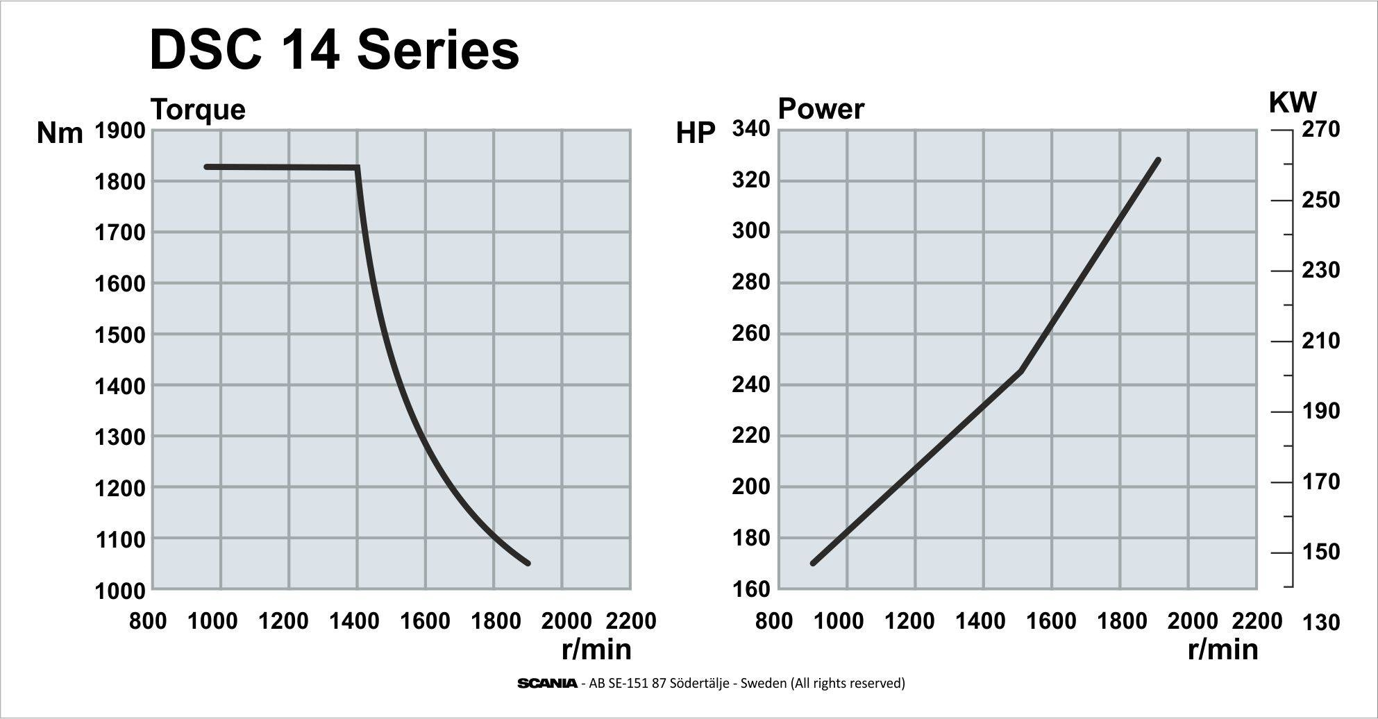 Protocolo y Curva de potencia Motores